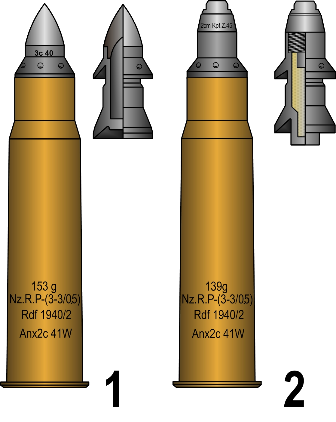 The view of shells for 2,8 cm schwere Panzerbüchse 41